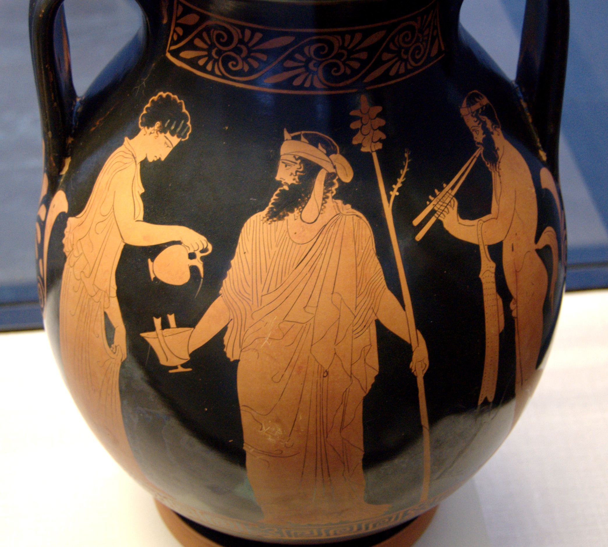 Maenad pourring a libation to Dionysos. Side B of an Attic red-figure pelike, ca. 430 BC.